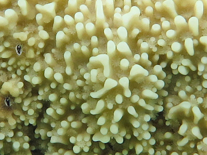 Montipora monasteriata. Closer view of colony above showing small polyps extended between the papillae.